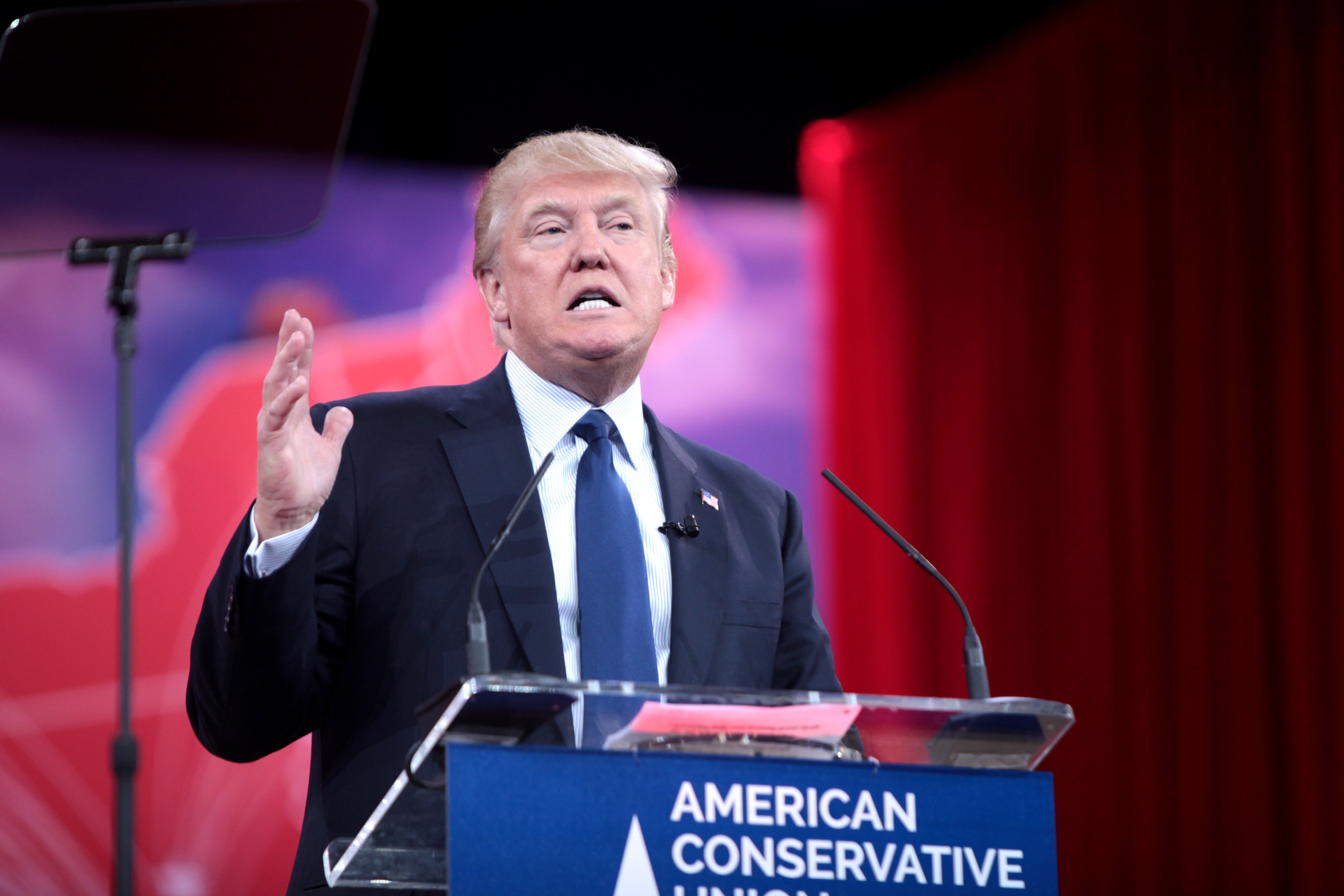 Donald Trump speaking at CPAC 2015 in Washington, DC.